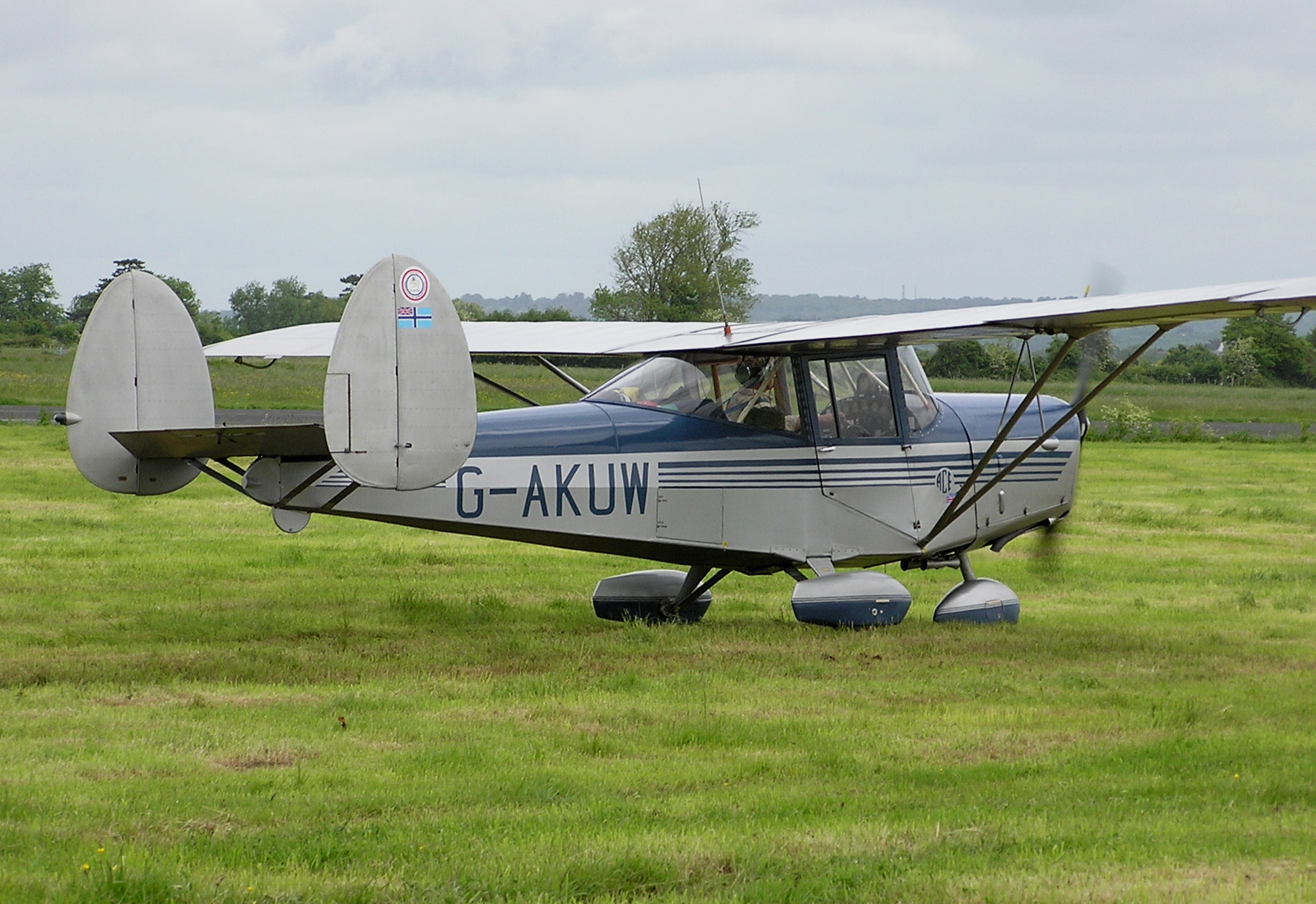 Chrislea CH.3 Super Ace Series 2 (G-AKUW), at the Great Vintage Flying Weekend at Keevil Airfield, Wiltshire, England. This aircraft was built in 1948.